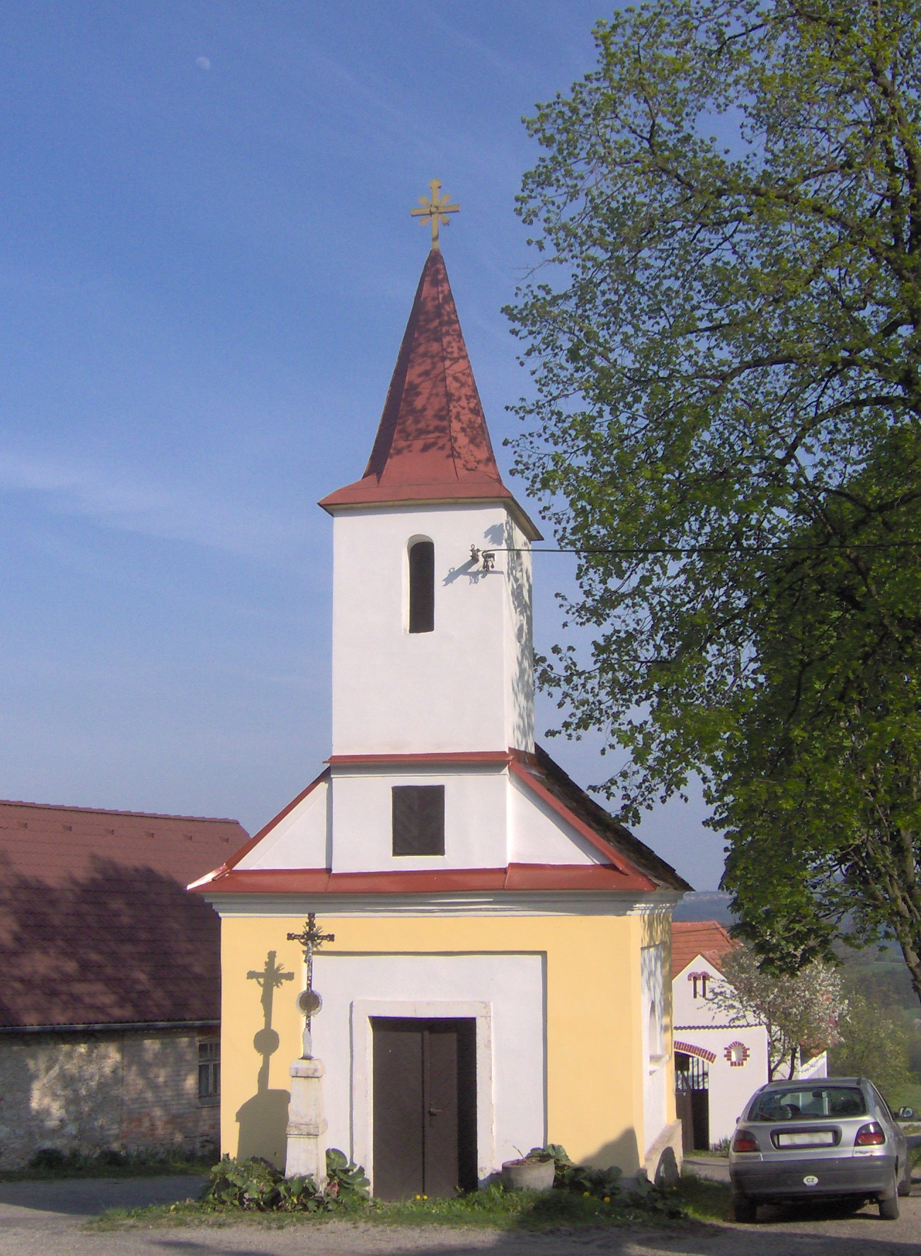 Chapel in Kváskovice, part of Drážov, Strakonice District, Czech republic